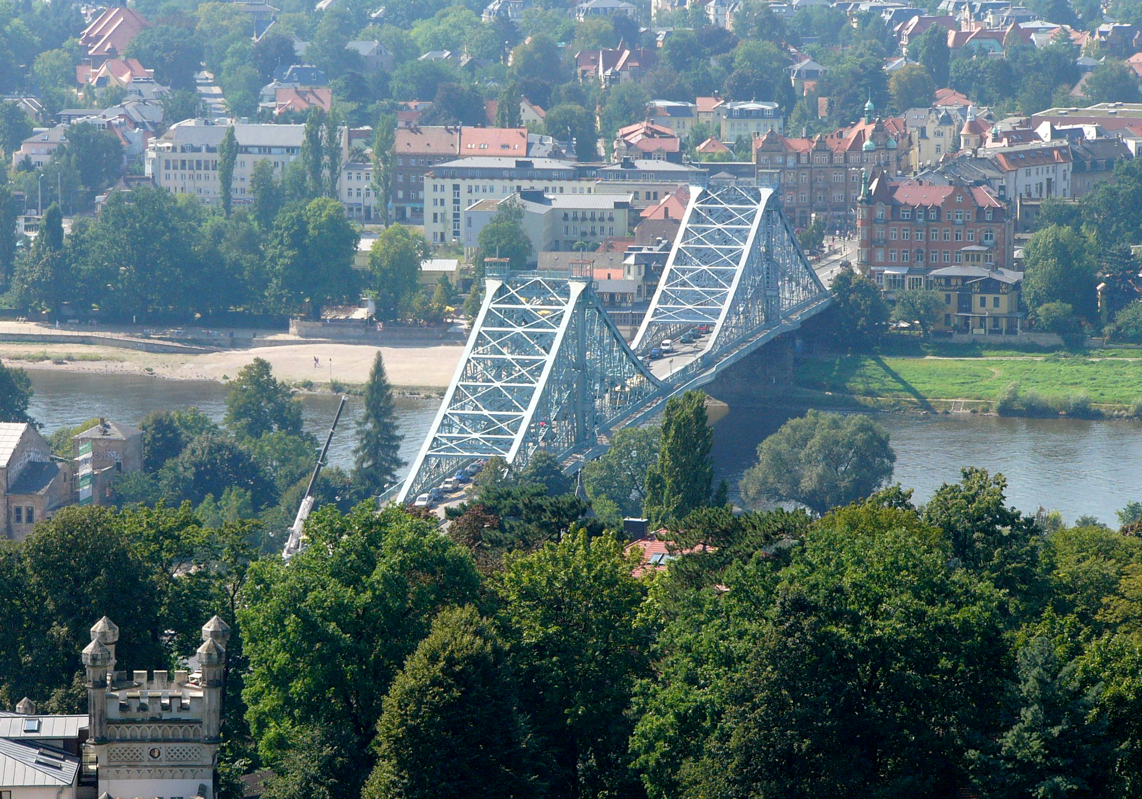 Blue Wonder is the commonly used name for the Loschwitz Bridge over the Elbe River in Dresden, Saxony, Germany.